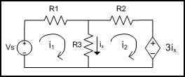 "Simple Circuit Example for Mesh Analysis article"